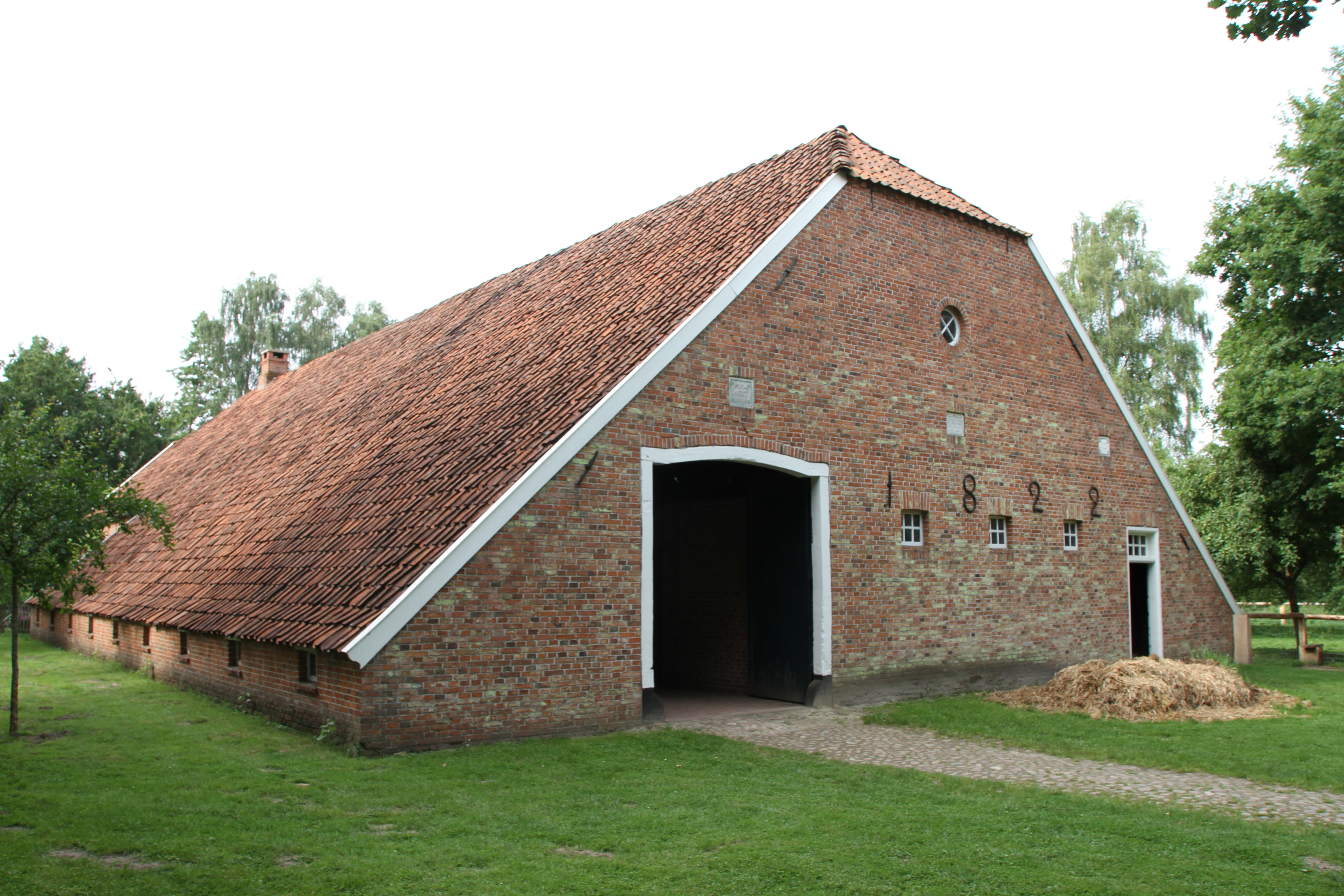 Image from main house of the Awick Farm, a so-called "Gulfhaus" type of house from 1822, built in Scharrel in the Saterland village of Cloppenburg district, northwest Germany.